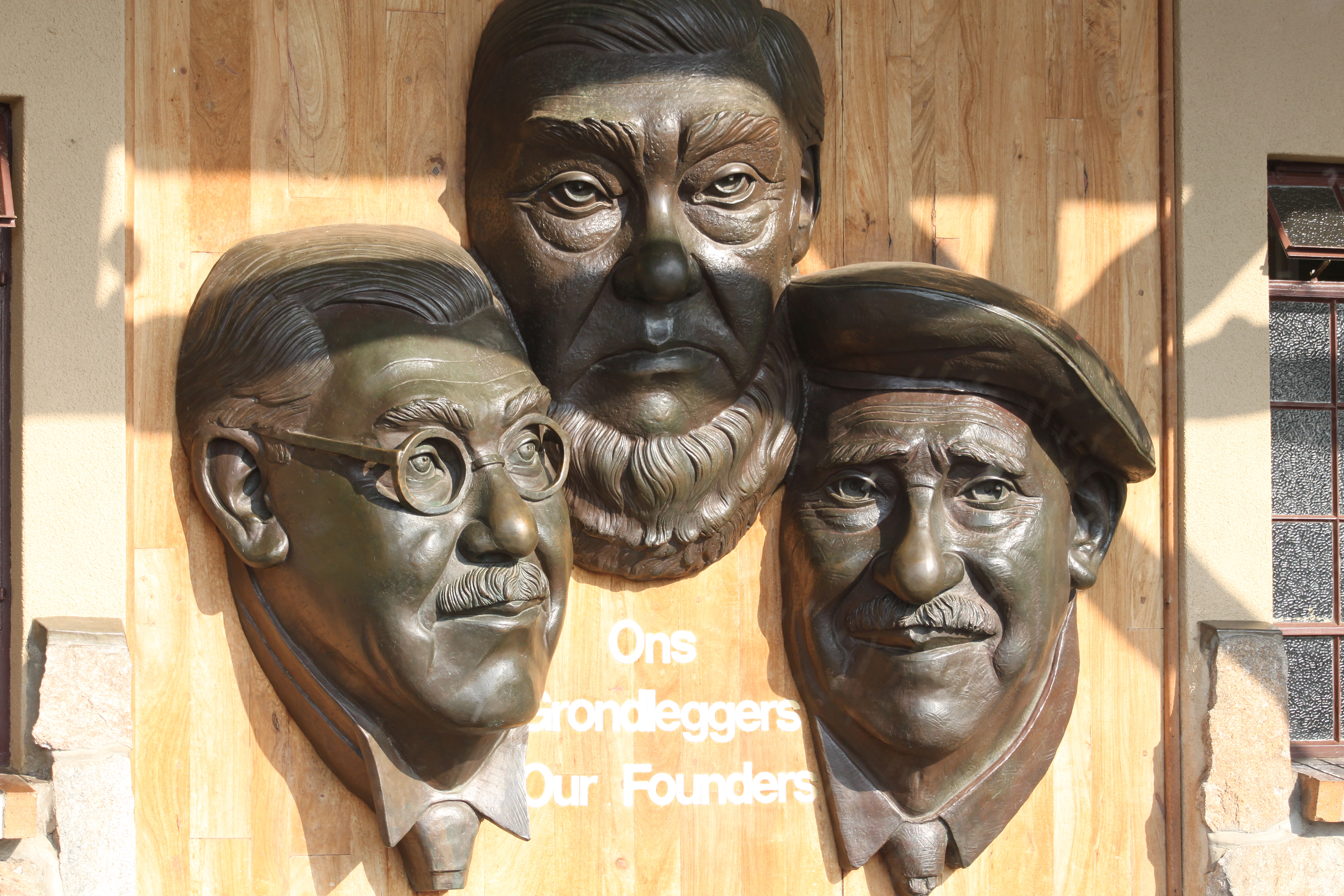 Skukuza, Kruger National Park, South Africa